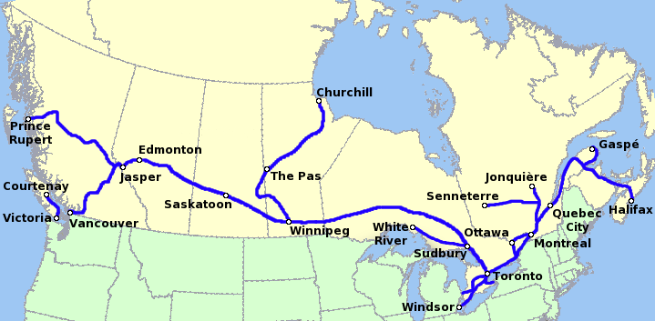 Network map of Via Rail passenger system